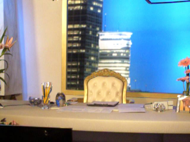 A photo of Susana Giménez's desk.